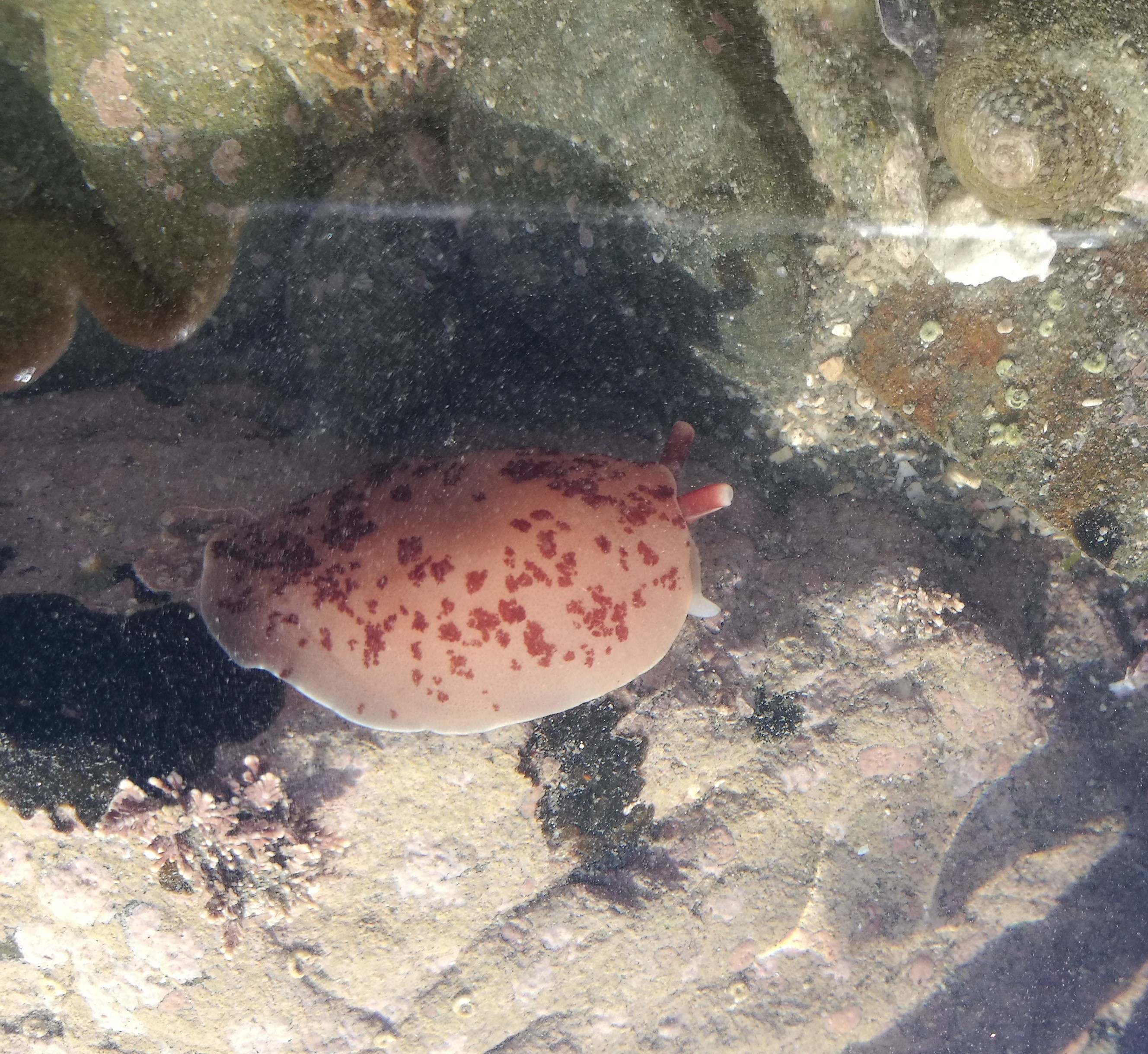 Ornate side-gilled sea slug swimming at Princess Bay Wellington Aug 2016